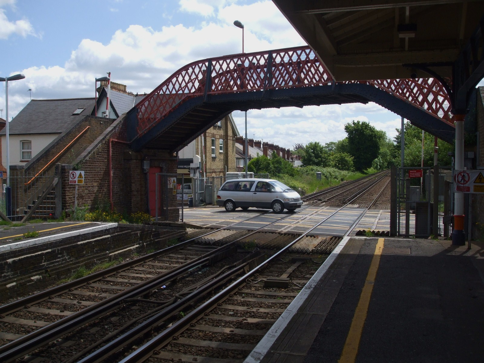 Addlestone station looking east to level crossing